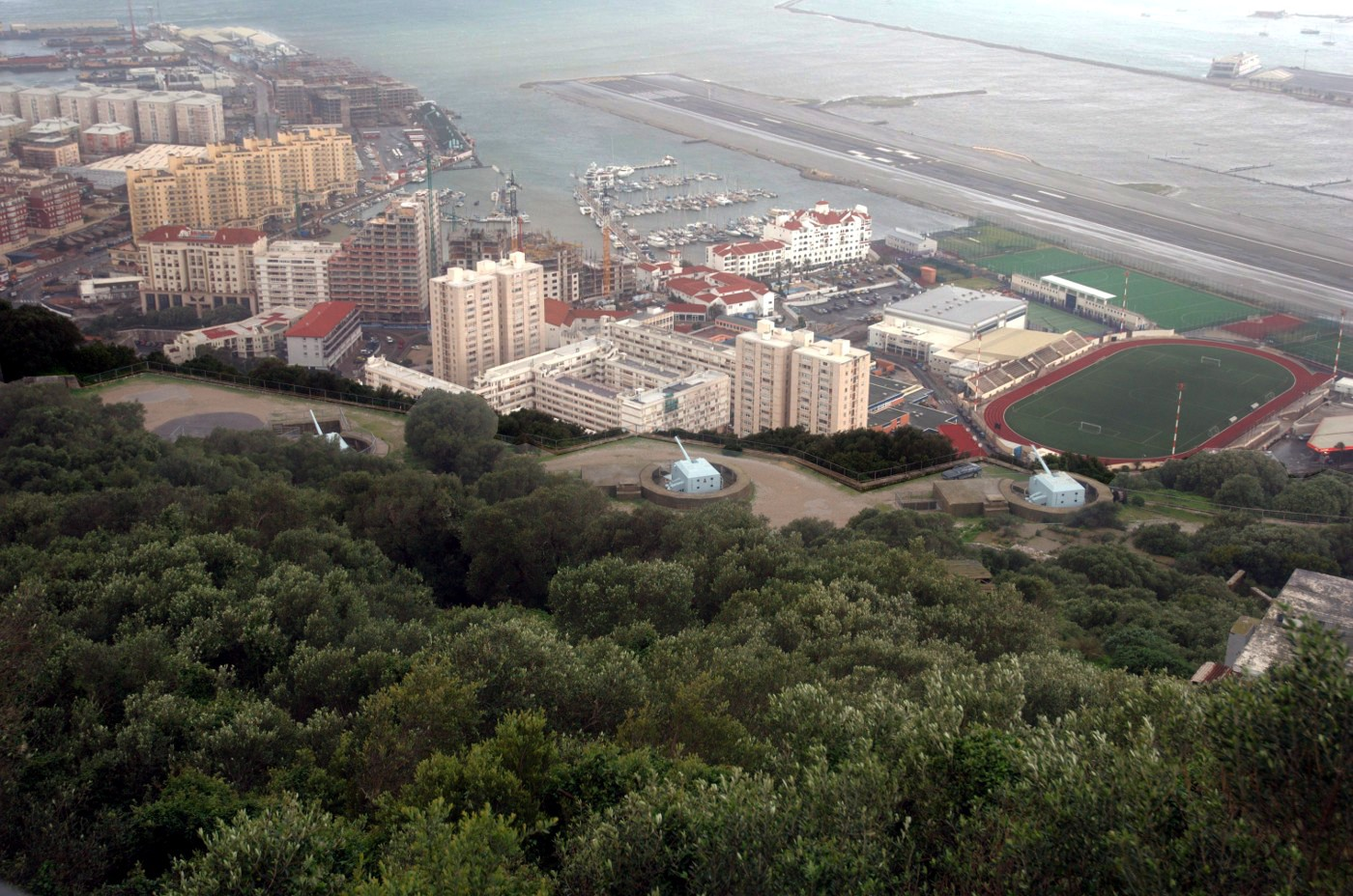 Princess Anne’s Battery of QF 5.25 inch Mk II guns overlooking the sea at Gibraltar.